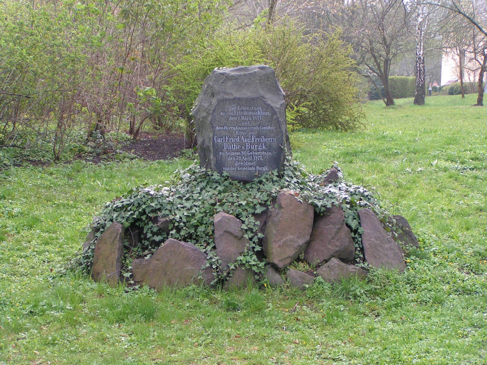 Memorial for Carl Friedrich August Freiherr Dathe von Burgk in Freital-Burgk, near the castle Burgk, Saxony, Germany